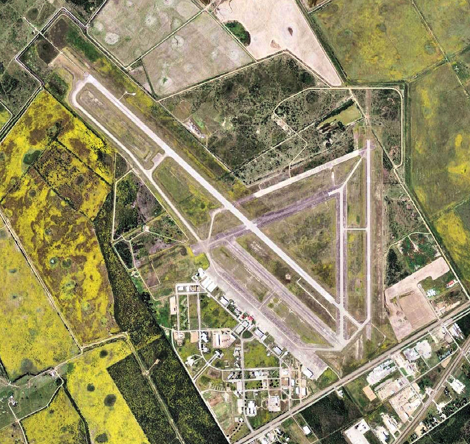 USGS digital orthophoto of Victoria Regional Airport in Texas